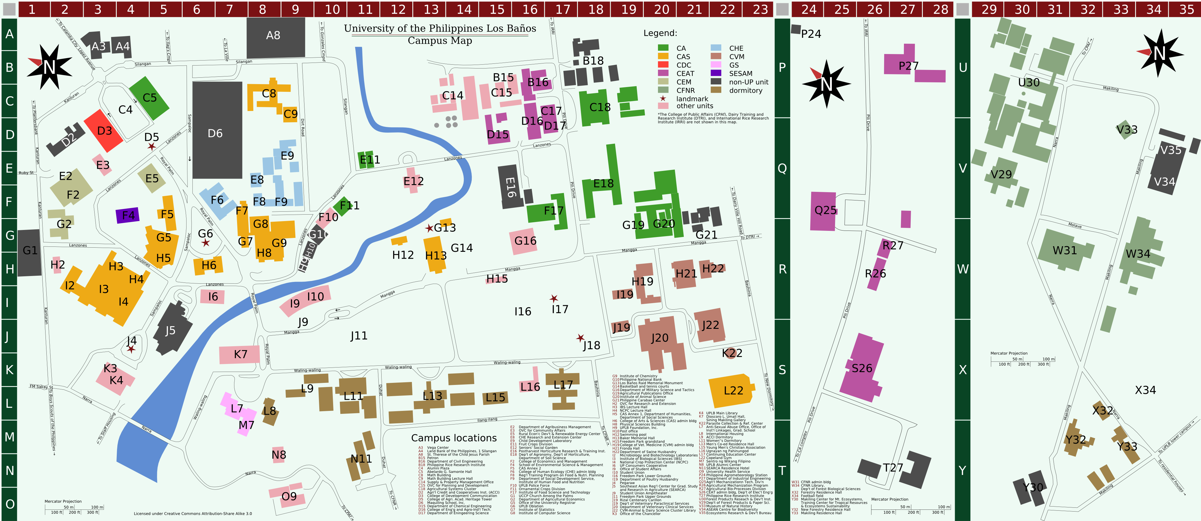 Campus map of UPLB. Exluding IRRI and CPAf